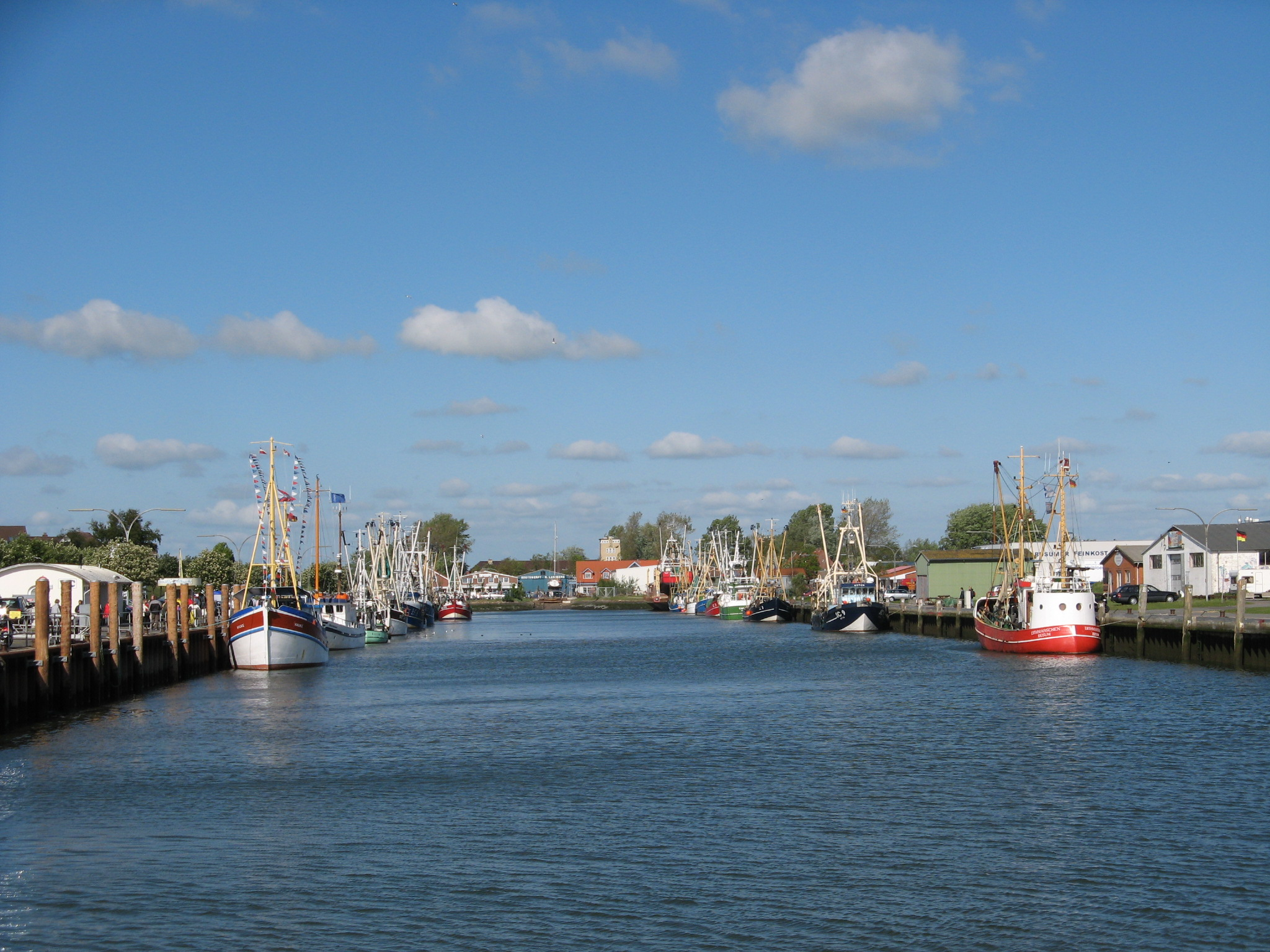 Büsum harbour with the following fishing vessels: (SC = Büsum; SD = Friedrichskoog) SC3 - Jan Maat SC6 - Keen Tied SC9 - Wotan SD19 - Cap Arkona SD31 - Utholm SD34 - Keen Tied